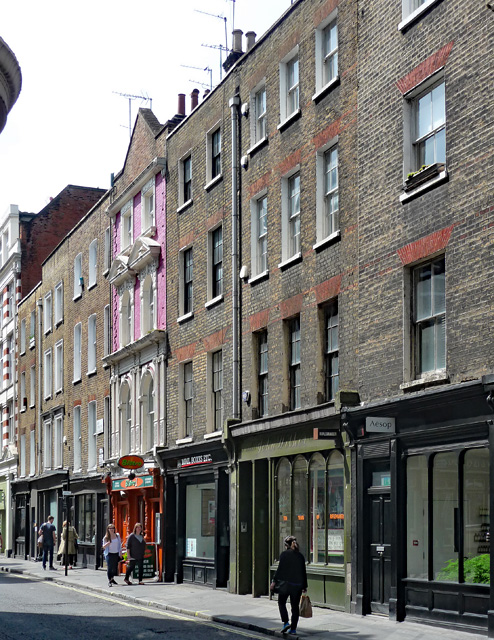 69-79 Beak Street